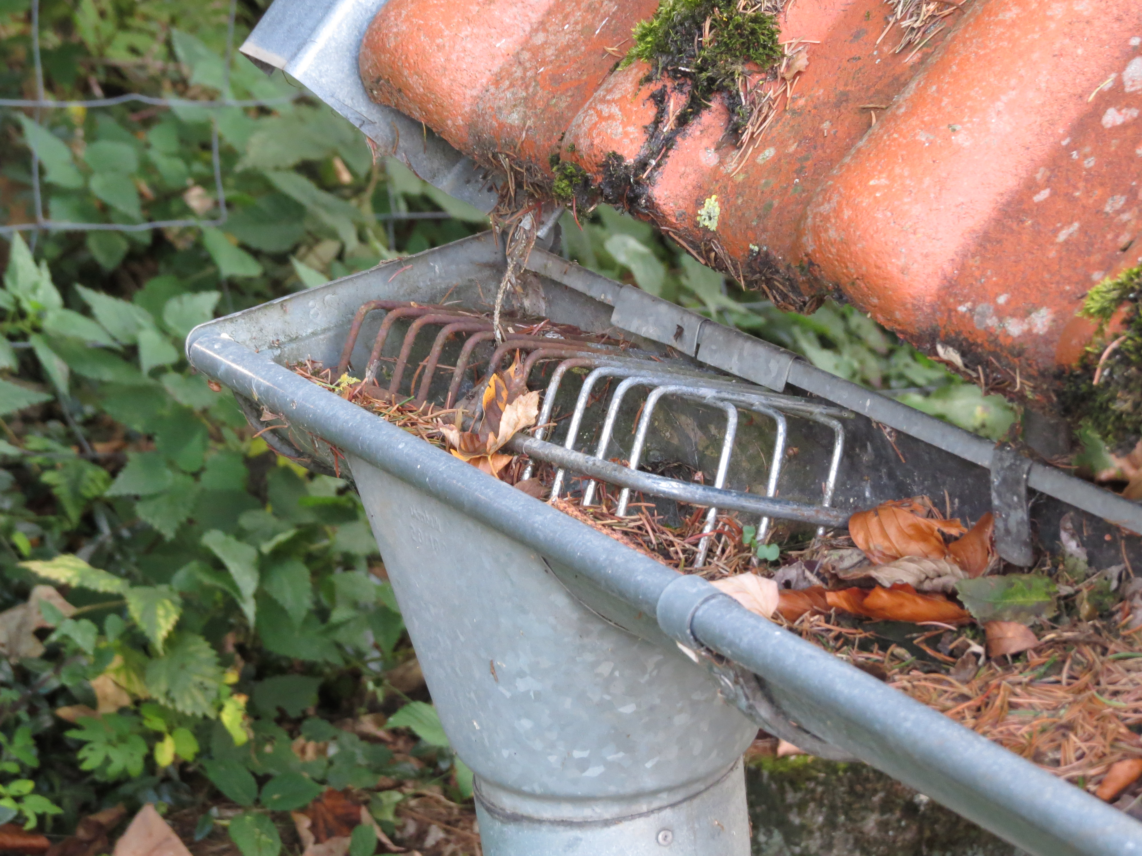 Downpipe strainer at Friedhof Plankenstein